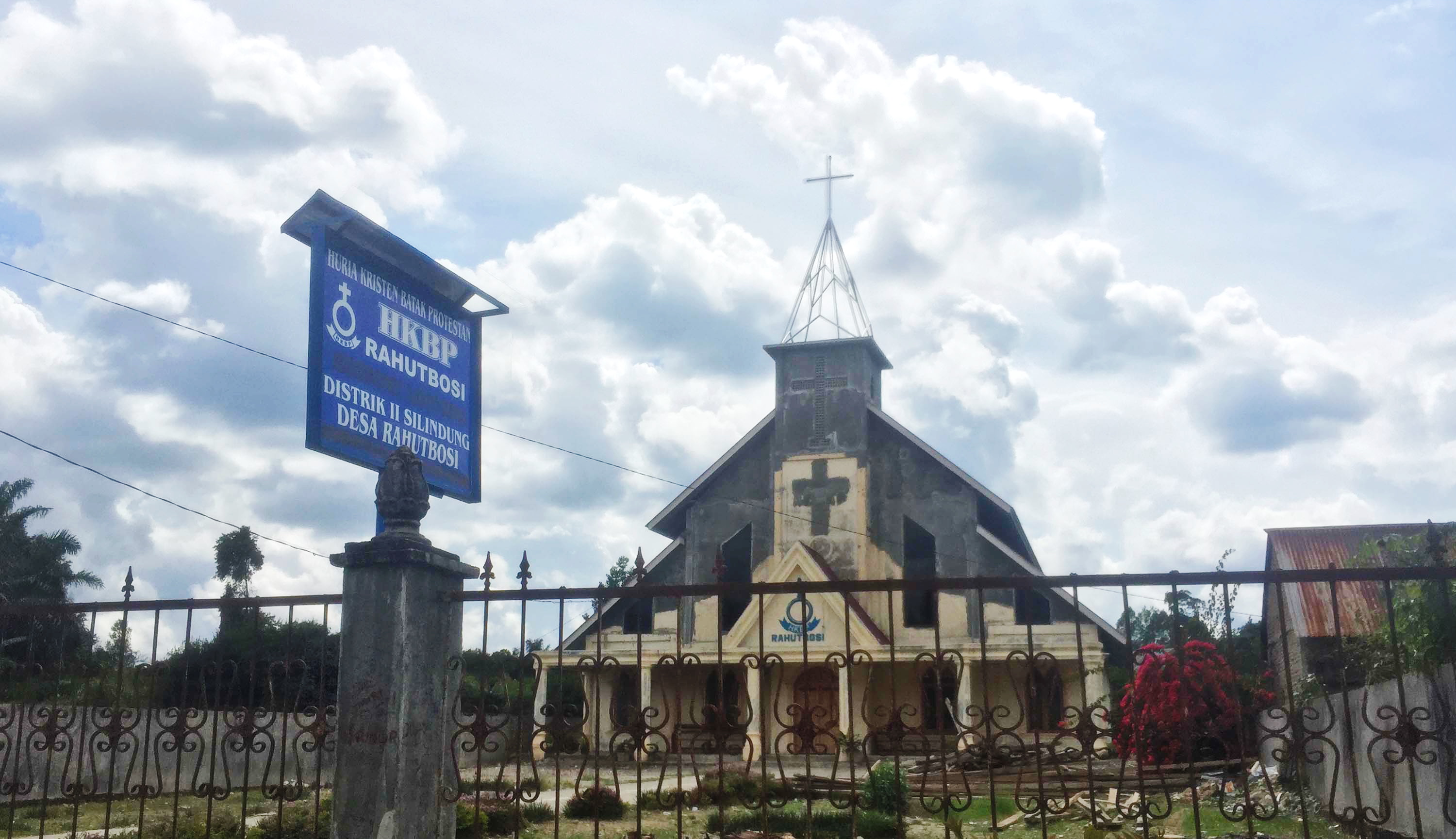 HKBP Rahut Bosi, in Rahut Bosi, Pangaribuan, Tapanuli Utara